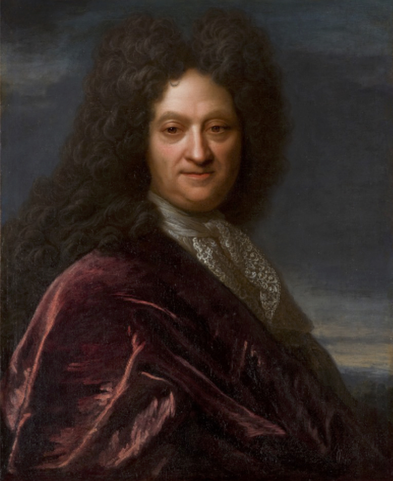 Pierre Le Pesant, sieur de Boisguilbert, French law-maker and a Jansenist, one of the inventors of the notion of an economical market (1646 – 1714)